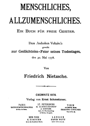 Title page of the first edition of Human, All Too Human: A Book for Free Spirits by Friedrich Nietzsche. Published by Ernst Schmeitzner (1851–1895) from Chemnitz.